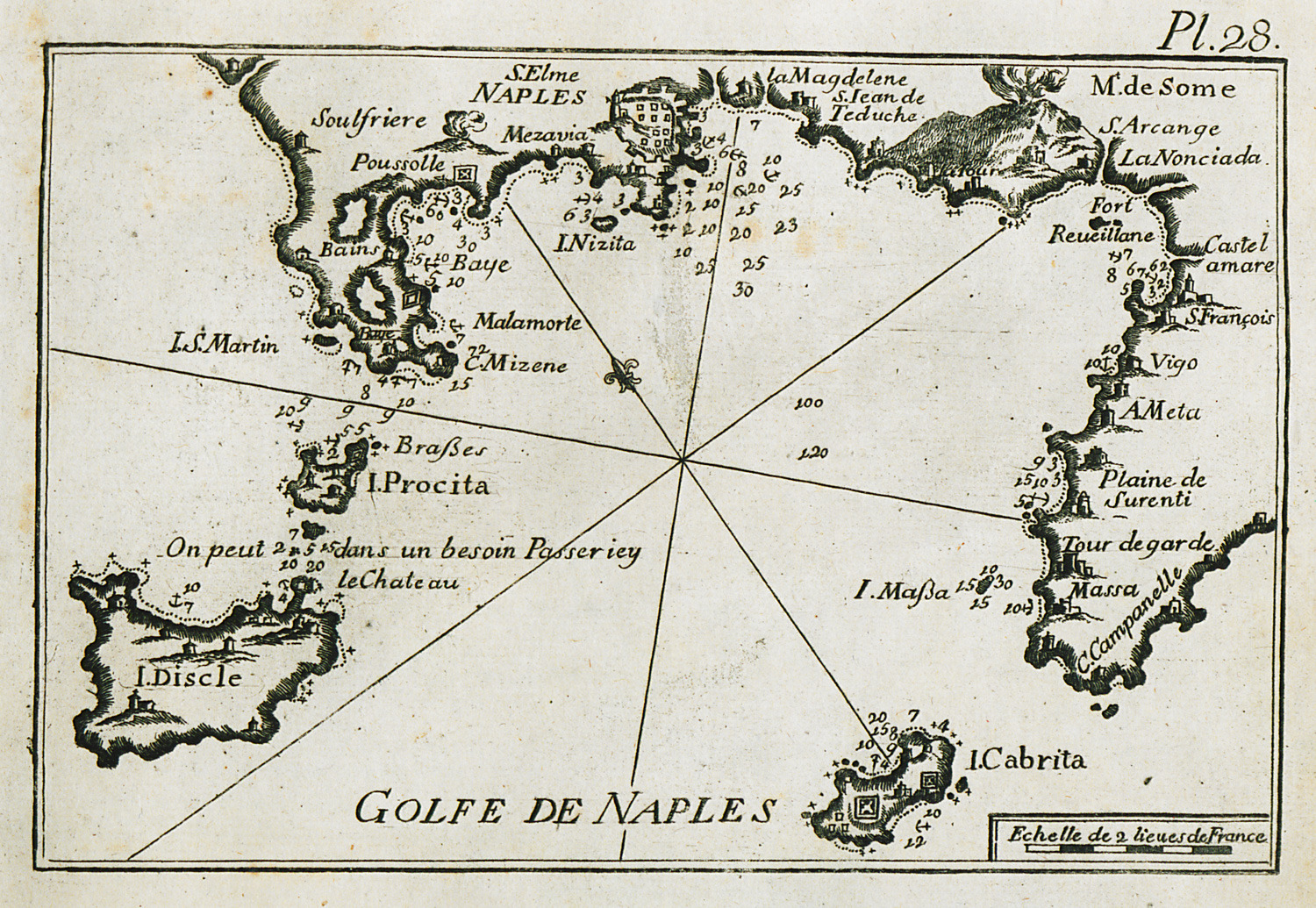 Recueil des principaux plans, des ports, et rades de la Méditerranée, chez Yves Gravier Libraire sous la Loge de Banchi, 1804